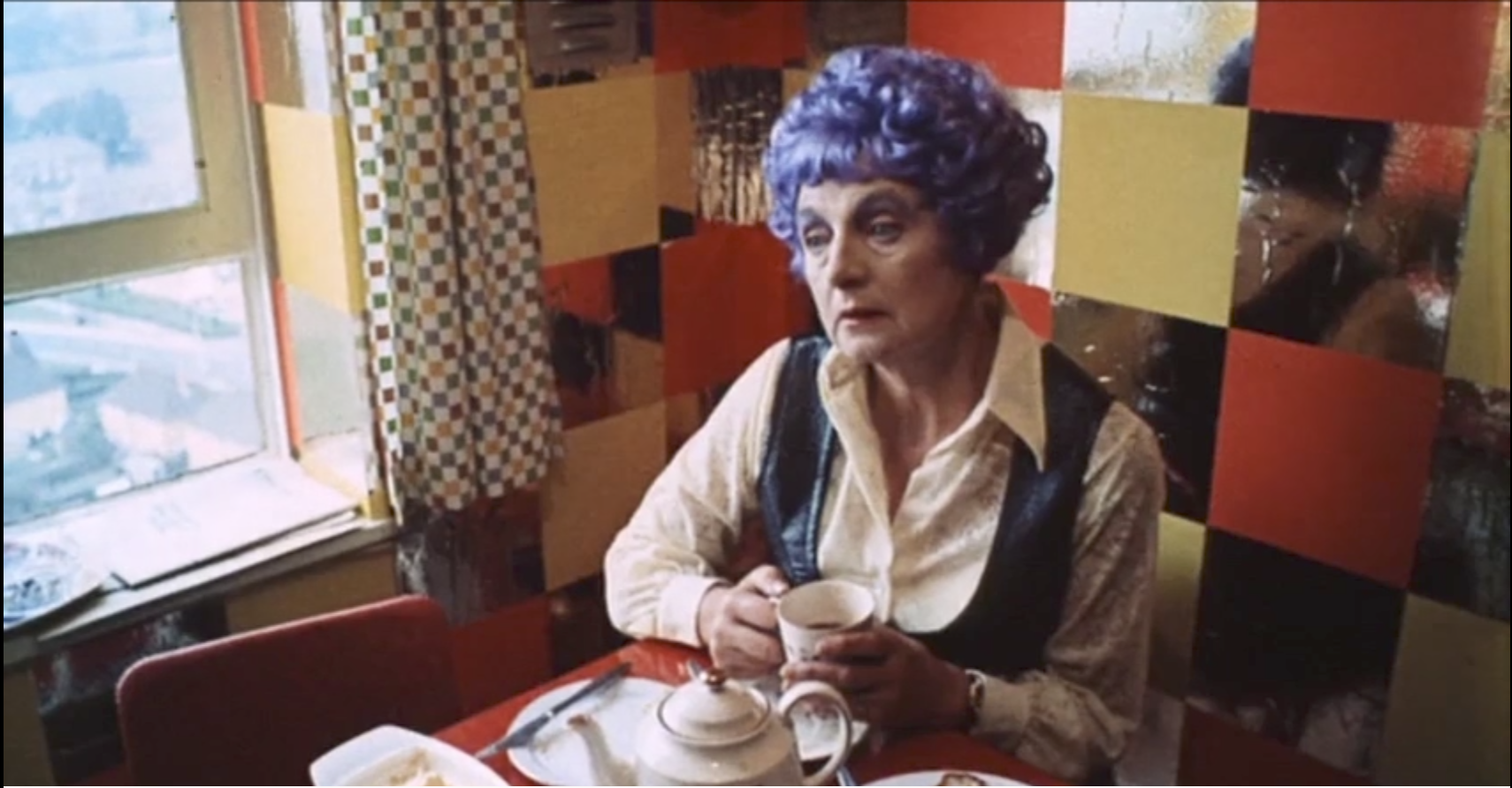 Shelia Raynor in the original trailer of "A Clockwork Orange"